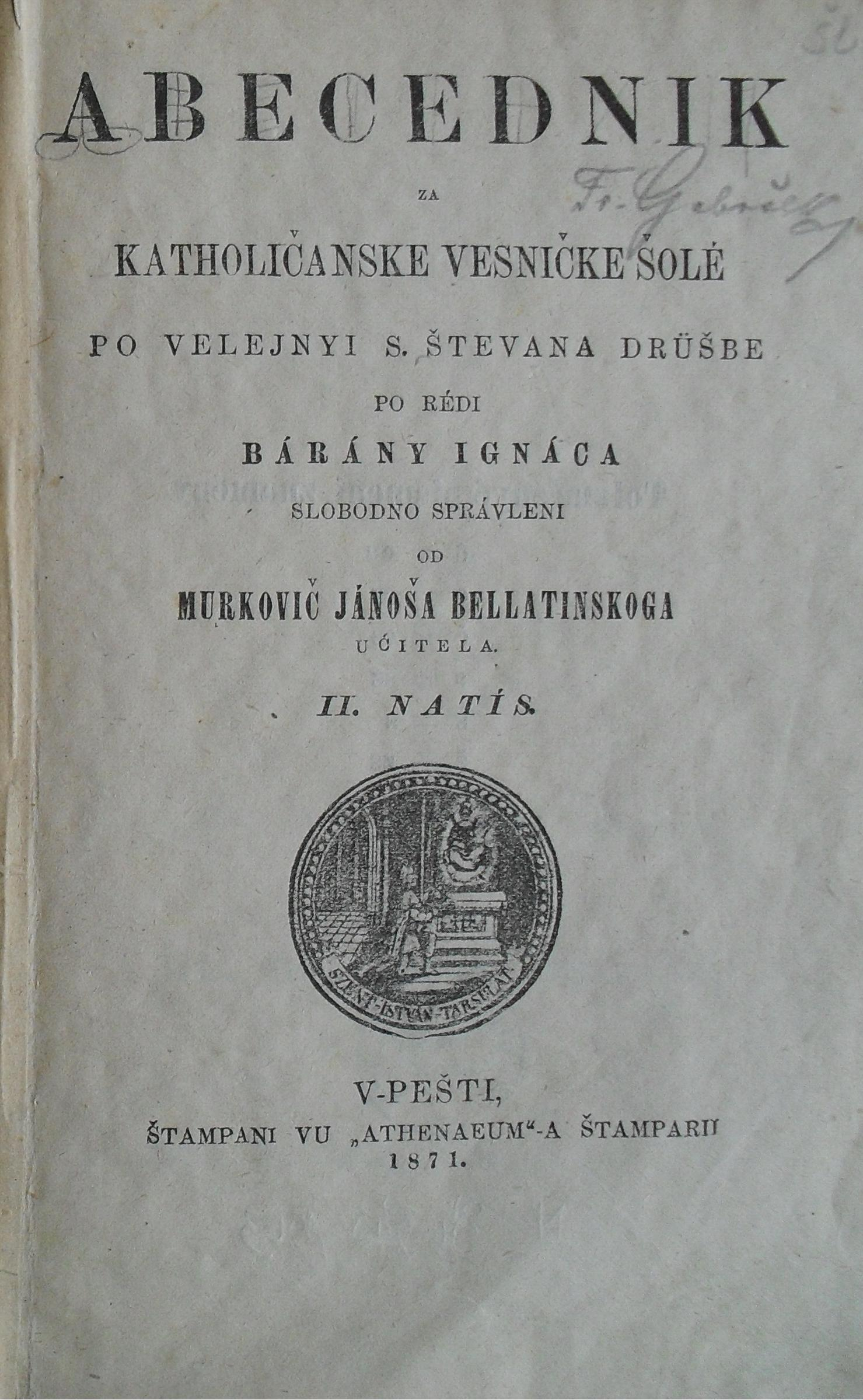 The new prekmurian ABC-book of János Murkovics (1871) in Gaj-ortography